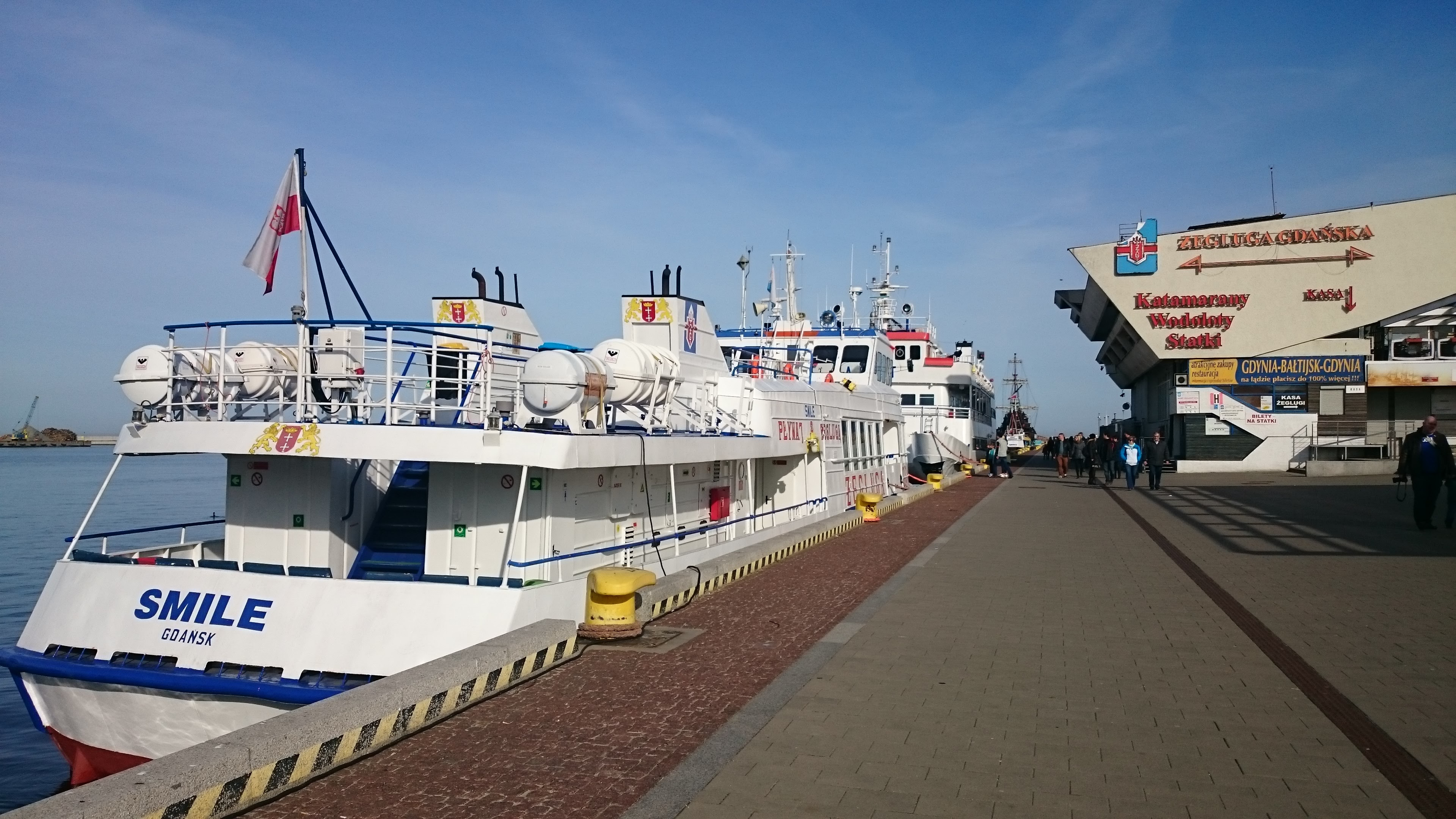 Ship "Smile" at the Żegluga Gdańska pier in Gdynia.